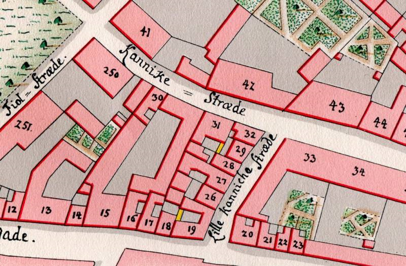 A detail showwing Store and Lille Kannikestræde on Gedde's 1757 map of the neighbourhood in Copenhagen, Denmark